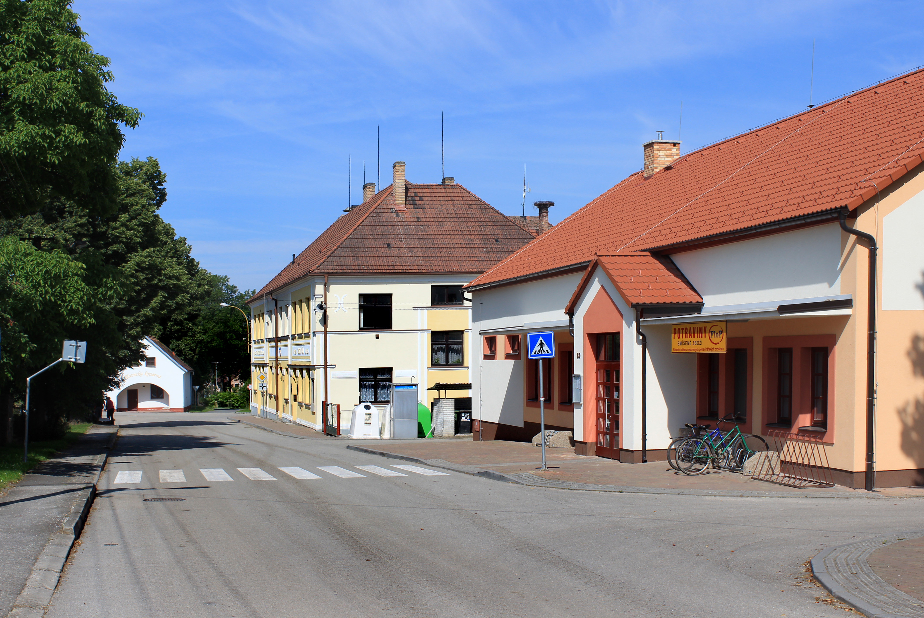 Main street in Plavsko, Czech Republic.